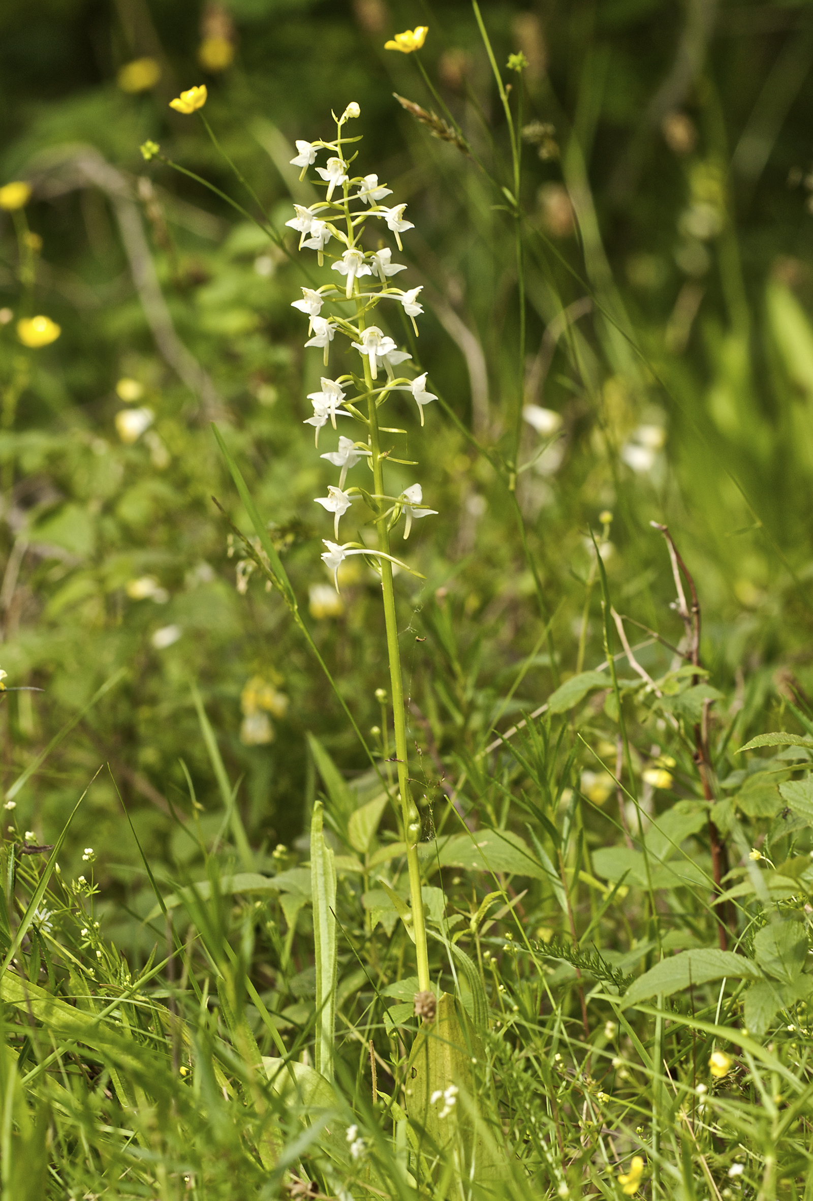 Greater Butterfly-orchid (Platanthera chlorantha), Småland, Sweden